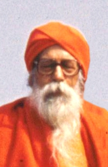 The late Acarya Shraddhananda Avadhuta (1919-2008) was the second president of Ananda Marga.